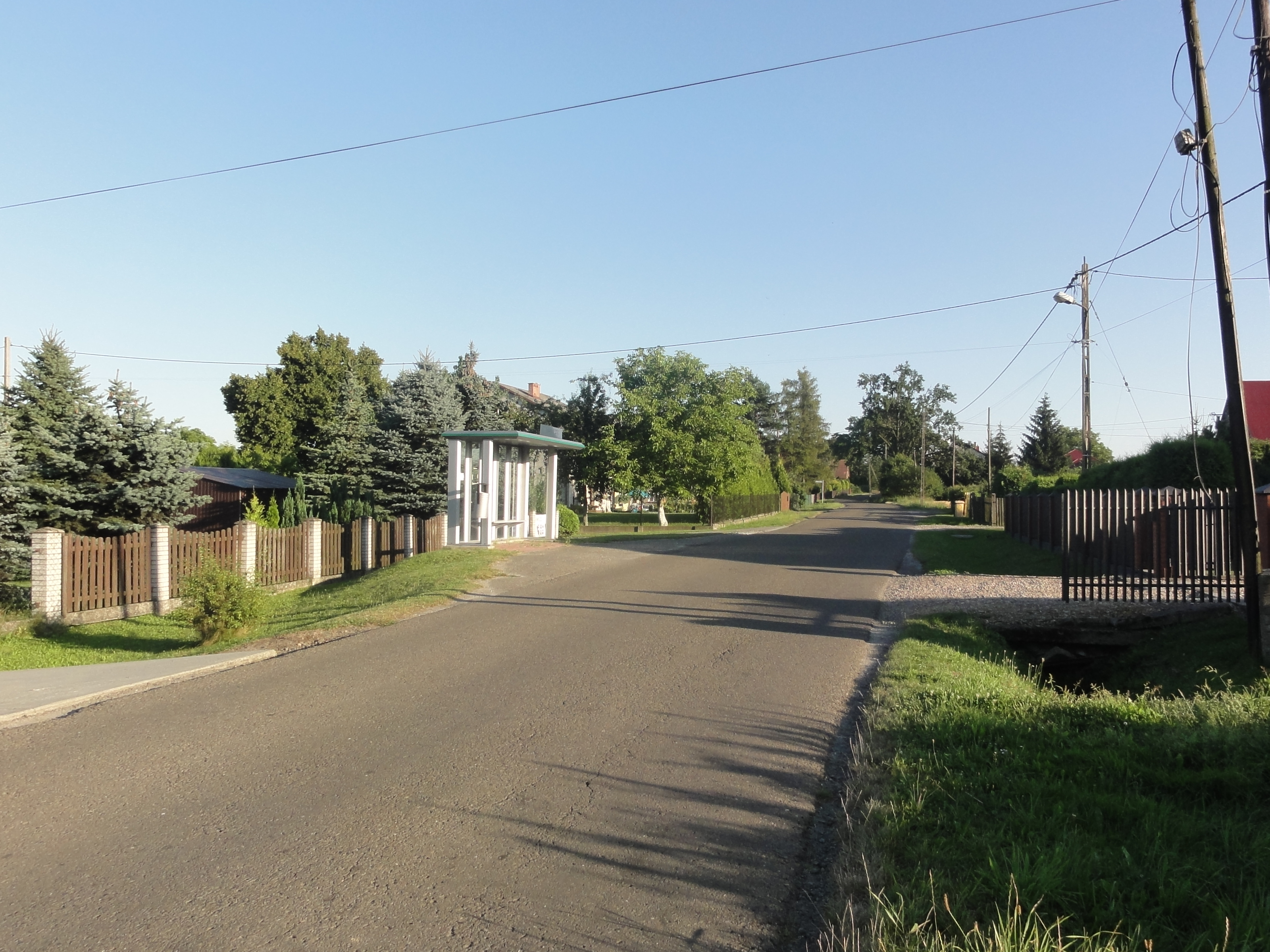 Łowiczki